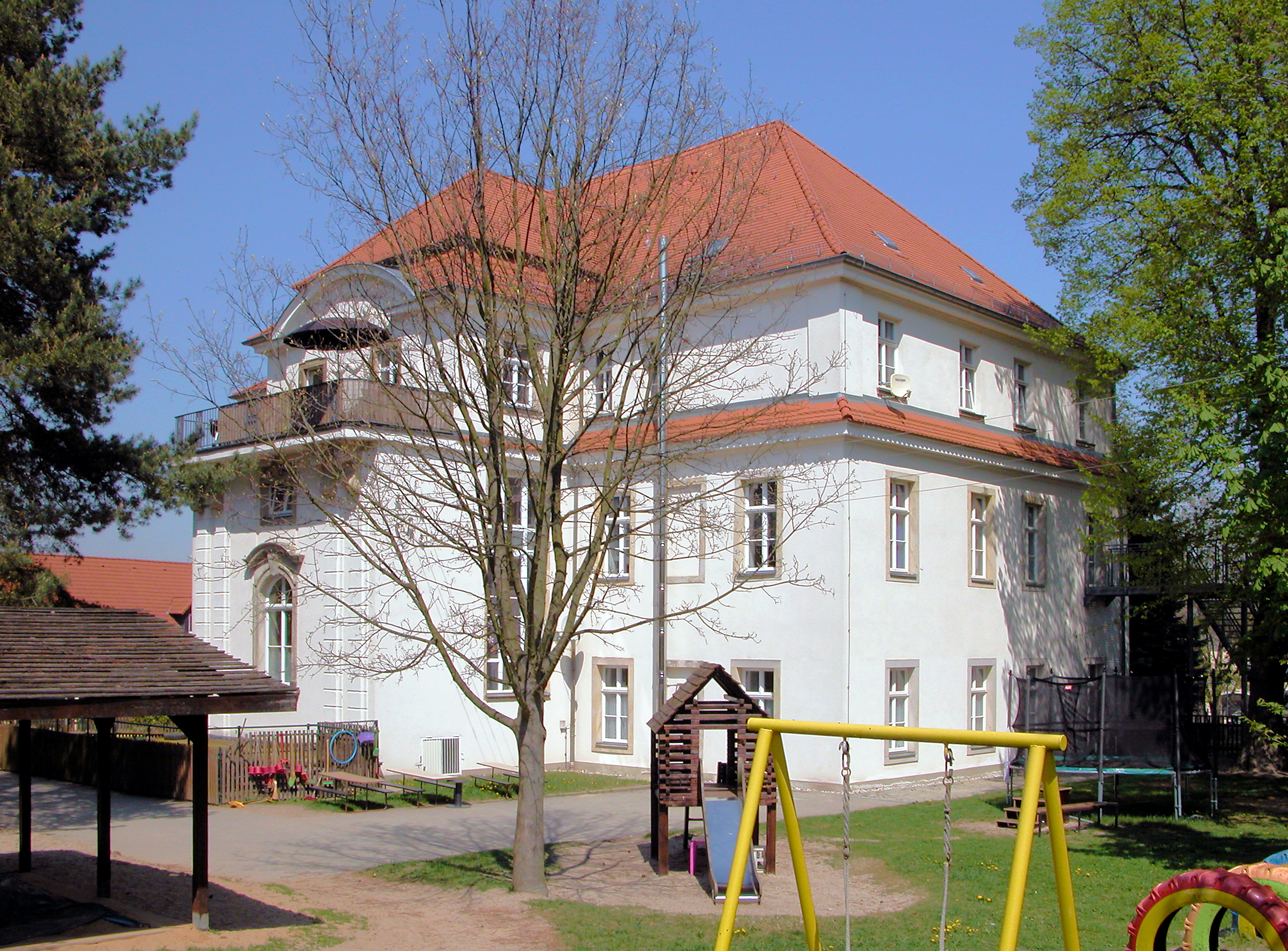 01.05.2012 01665 Barnitz (Käbschütztal), Barnitz 1 (GMP: 51.120118,13.359751): Herrenhaus des ehem. Ritterguts, Straßenseite. 1731 erbaut und 1912/13 umgebaut und aufgestockt. In der DDR-Zeit zunächst Kulturhaus der MTS, später Kindergarten, Arztpraxis und Wohnungen. Heute Kindergarten und Wohnungen. [DSCNn3866.TIF]20120501400DR.JPG(c)Blobelt